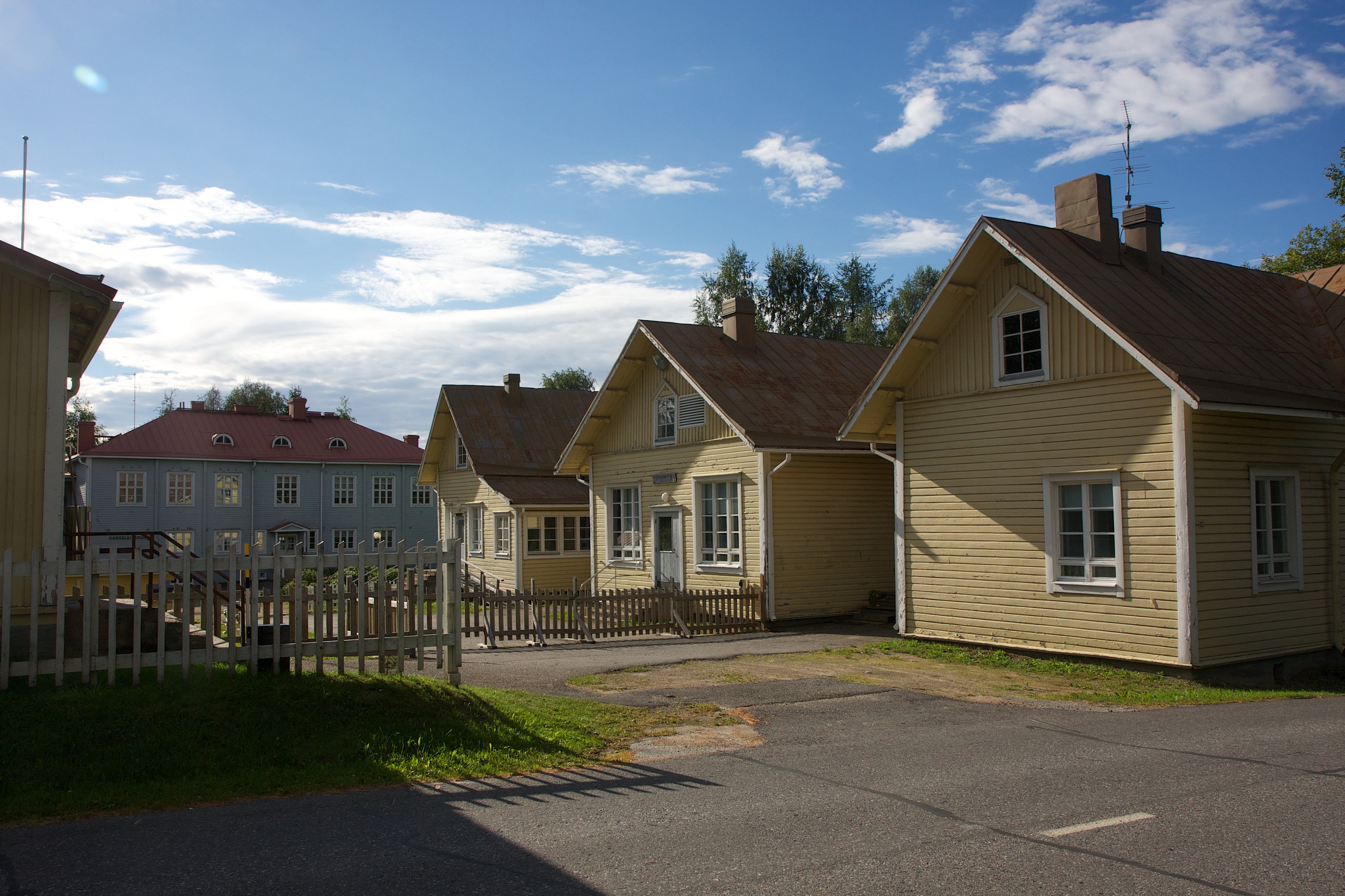 Puu-Juuka, the wooden centre of Juuka, Finland